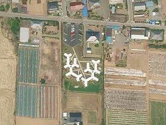 Terrace House in Ota.